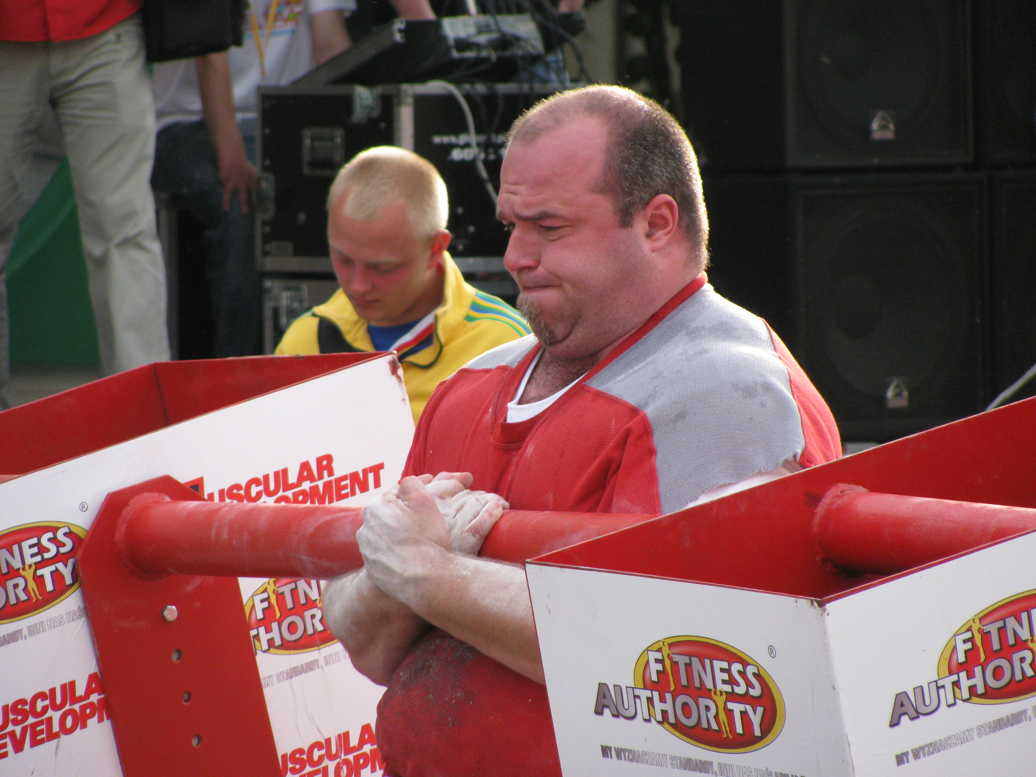 Lubomir Libacki - a strength athlete from Poland